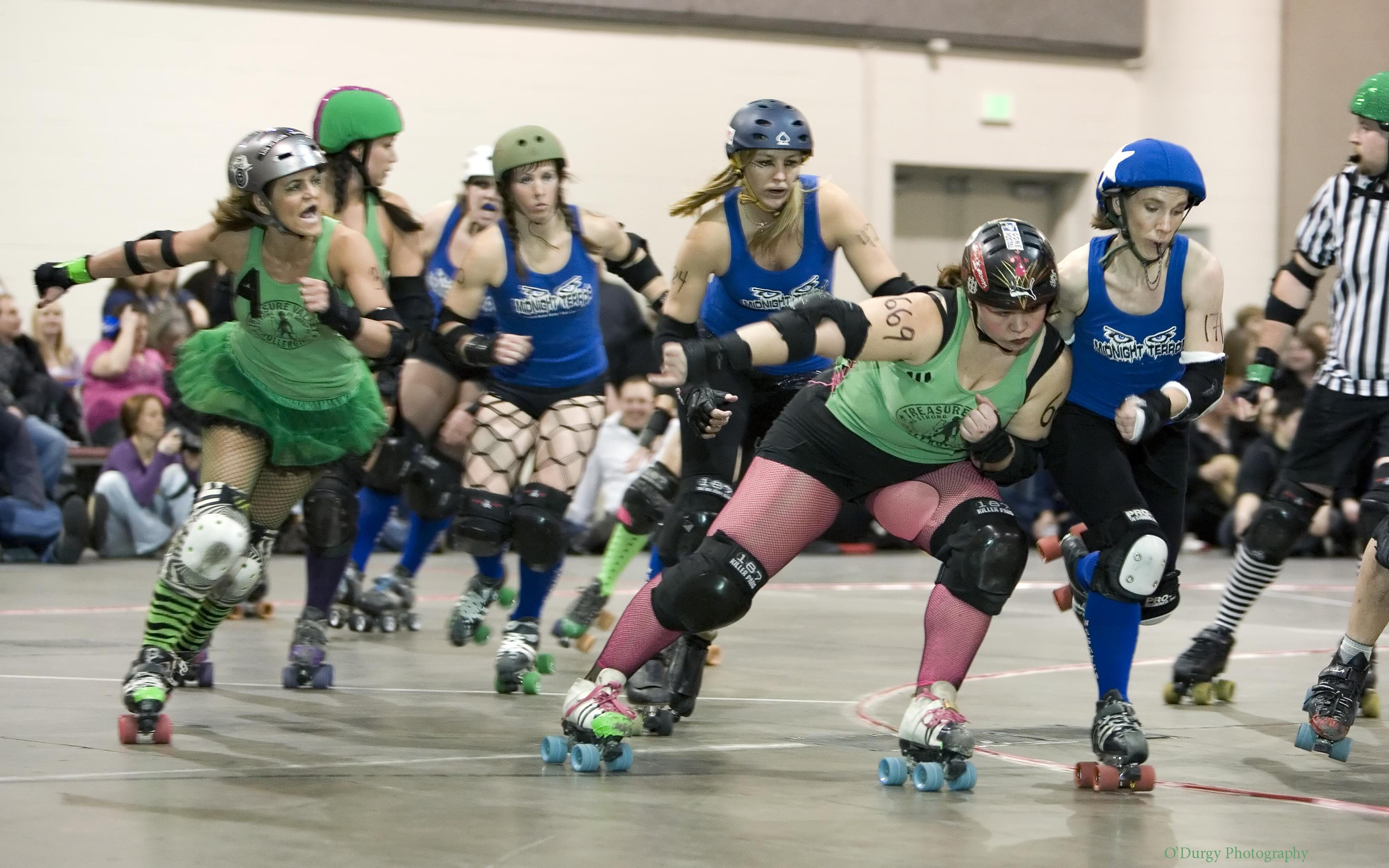 The Treasure Valley Rollergirls (Boise, Idaho) Travel Team vs. Wasatch Midnight Terror (Salt Lake City, Utah).